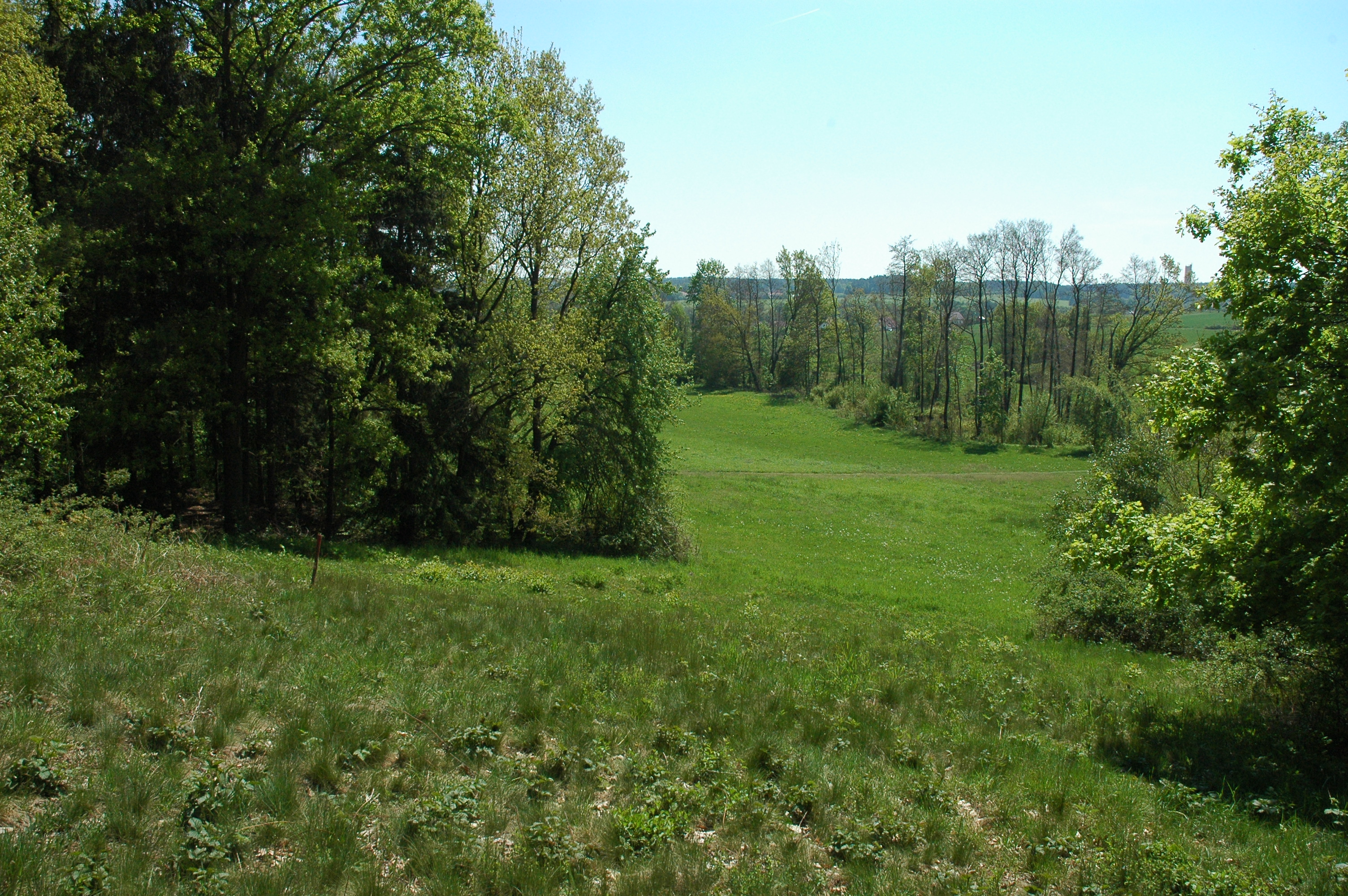 Natural monument Hrobka in Chrudim District, Czech Republic